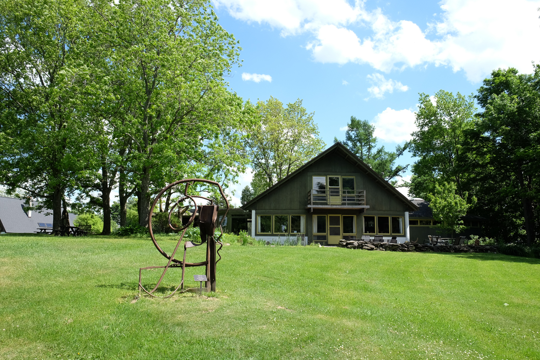 Mid-century modern artist home